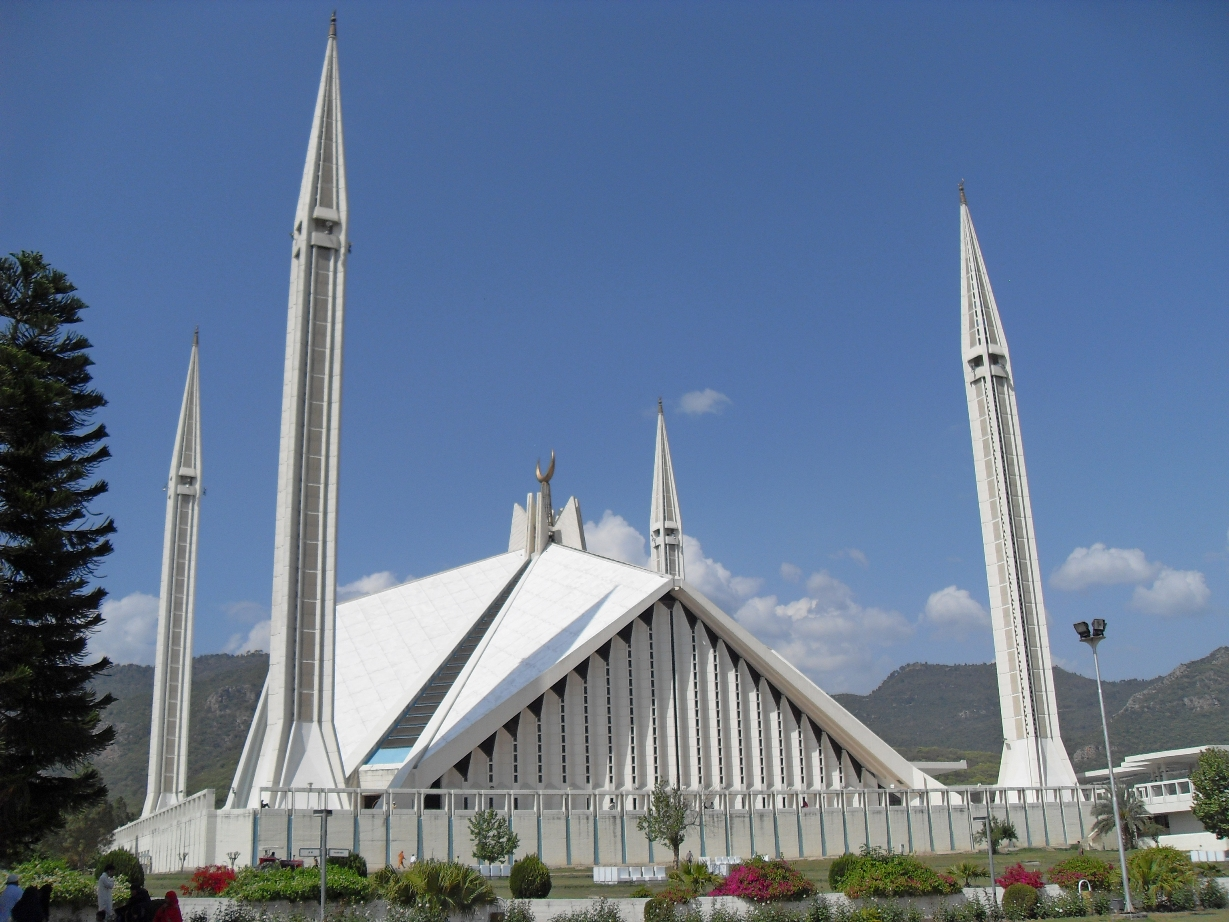 World's one of the beautiful masjid in Pakistan